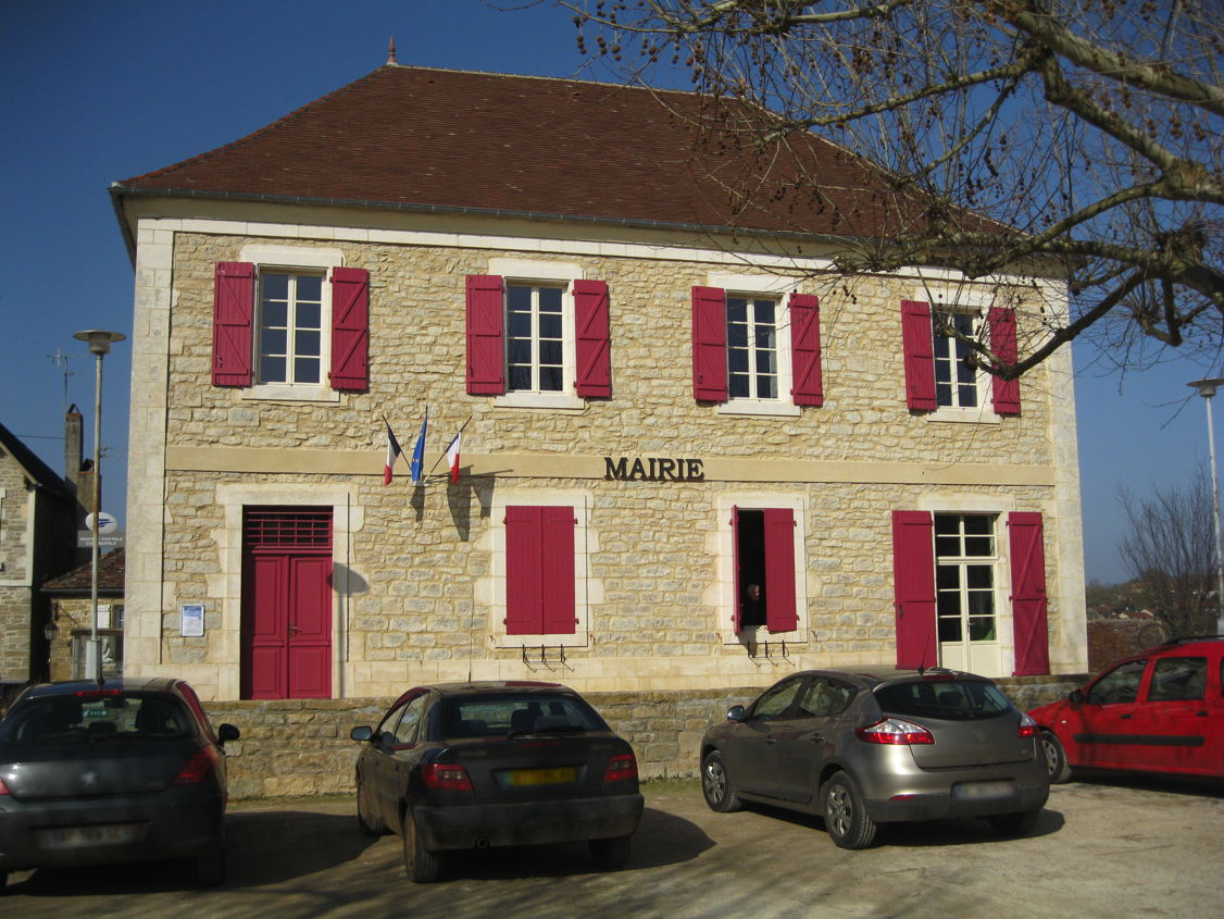 Picture of Miers town hall (Lot - France)